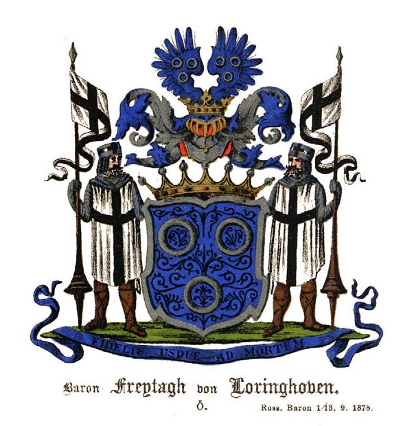 Coat of arms of Baron Freytagh von Loringhoven.